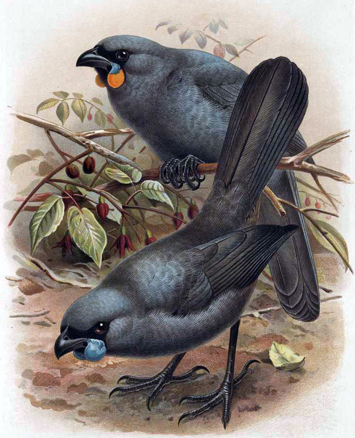 North Island Kōkako Callaeas wilsoni (front) has blue wattles, and South Island Kōkako Callaeas cinereus (rear) has orange wattles.